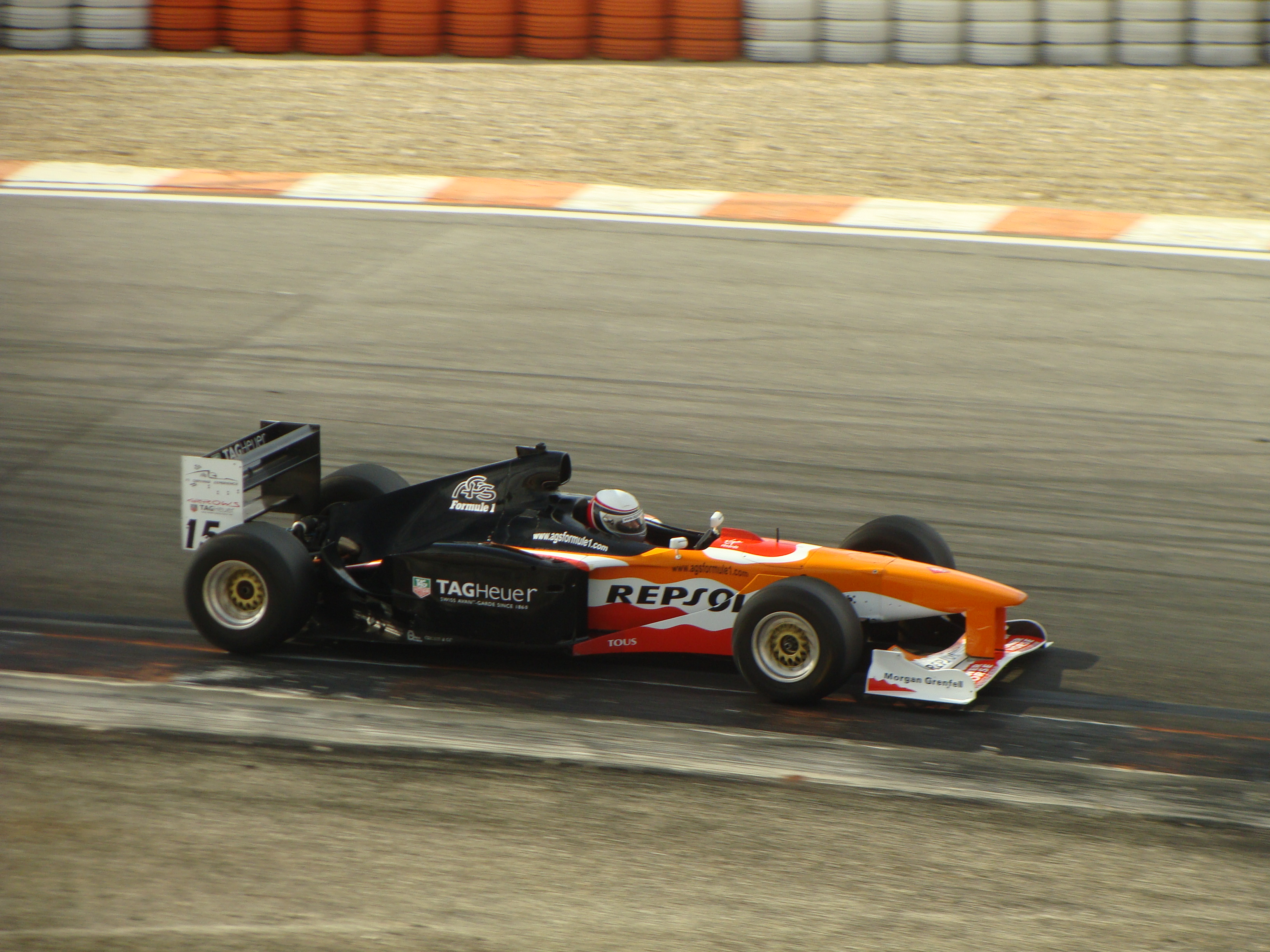 Arrows A20 being presented at Historacing Festival Lédenon 2012